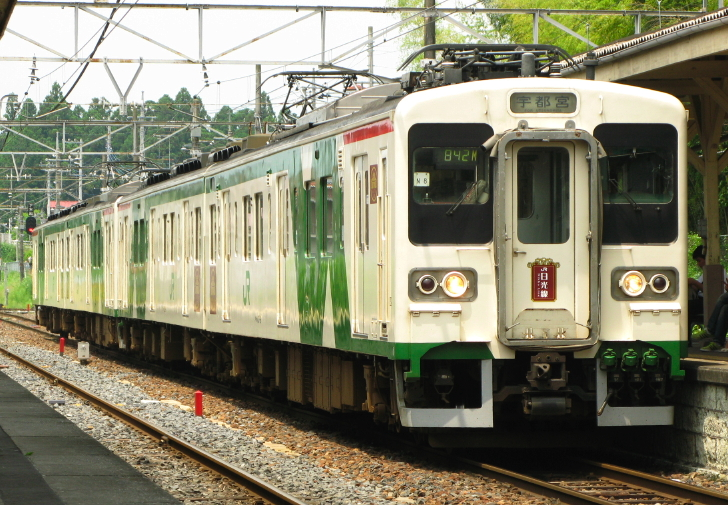 JR East 107 series EMU at Kanuma Station on the Nikko Line